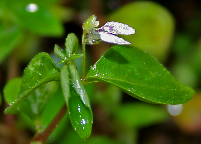 Tiny Balsam Impatiens inconspicua in Goa, India.